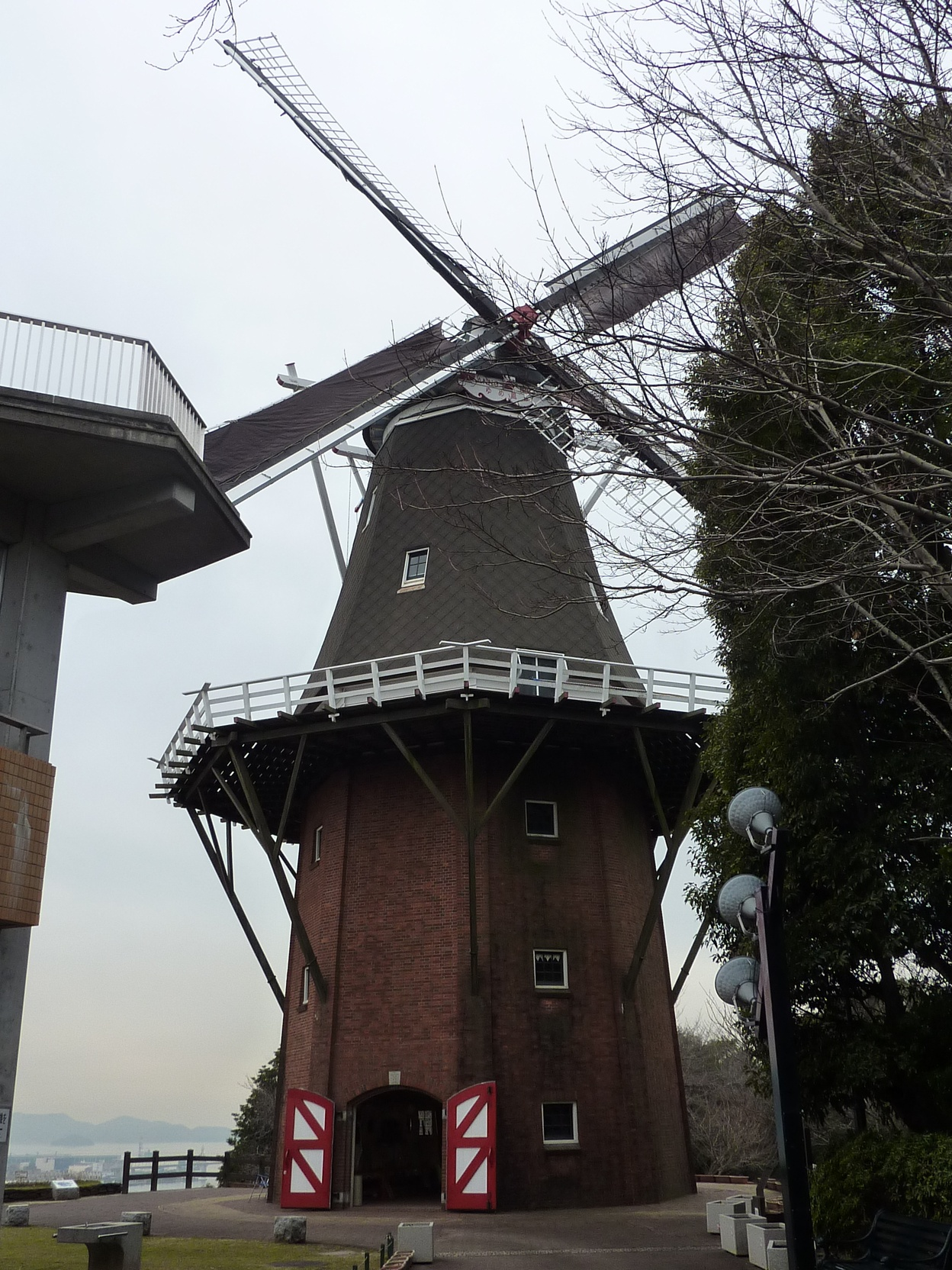 The "Yume-Fusha" (Windmill of Dream) at the Eigenzan Park (Shunan City, Yamaguchi, Japan)